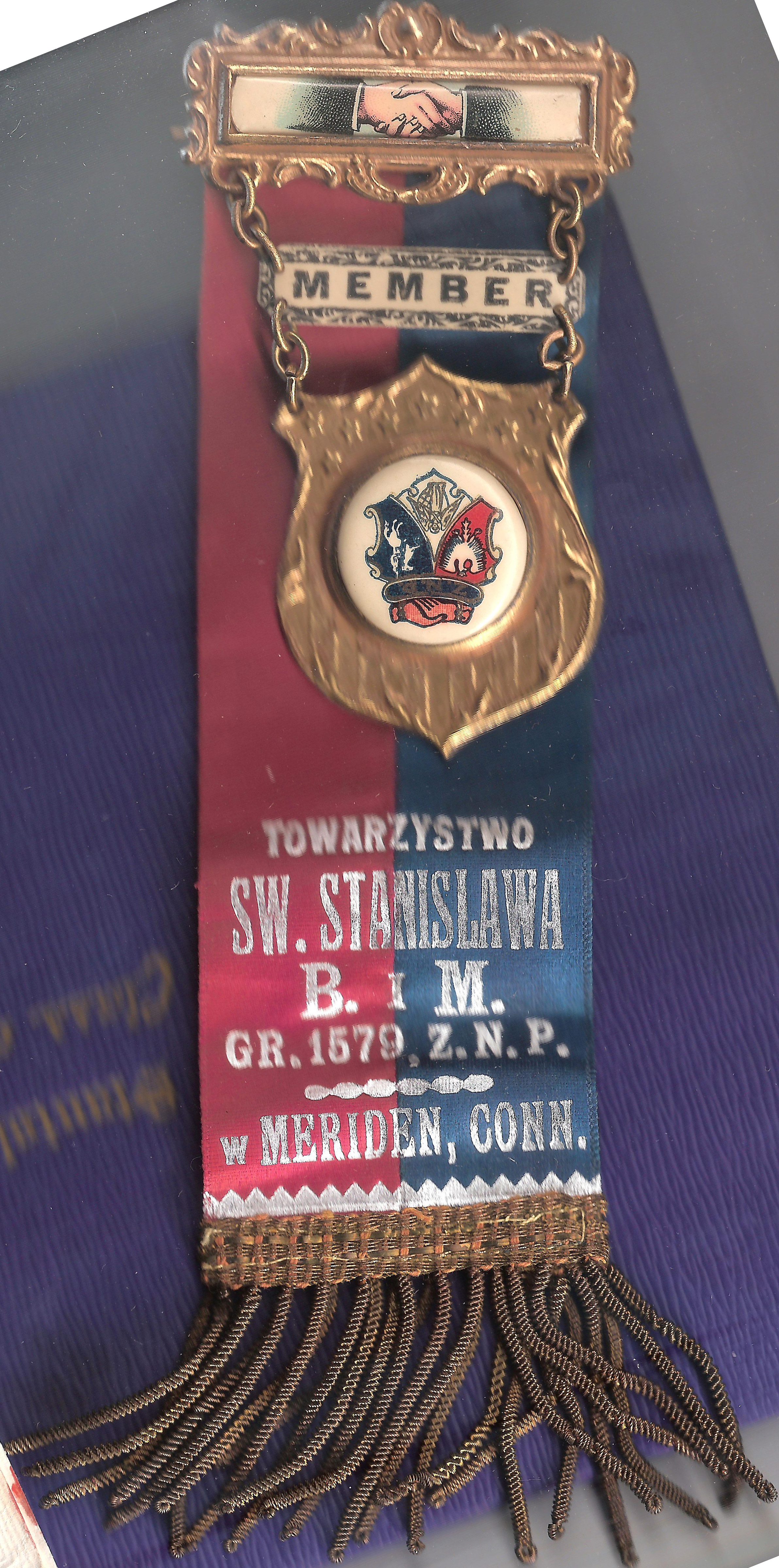 Member - Towarzystwo Św. Stanisława B. i M. Gr. 1579, Z.N.P. w Meriden, Conn. - belonged to Pani Mendyka from Meriden.